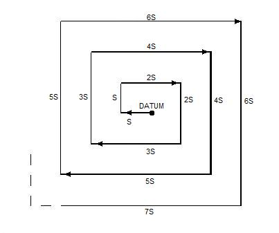 This design describes the expanding square search, a SAR search pattern which can be used by one ship